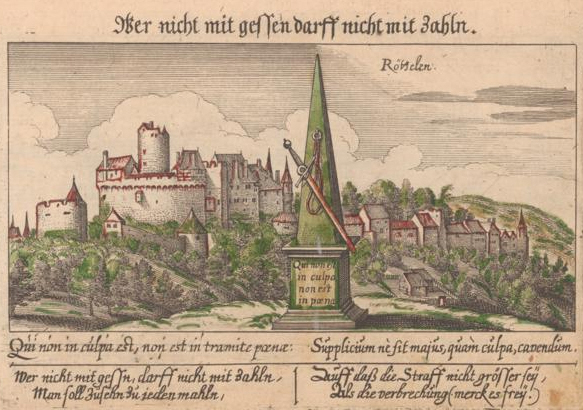 Copper engraving picturing the Castle of Rötteln near Basle, 1625